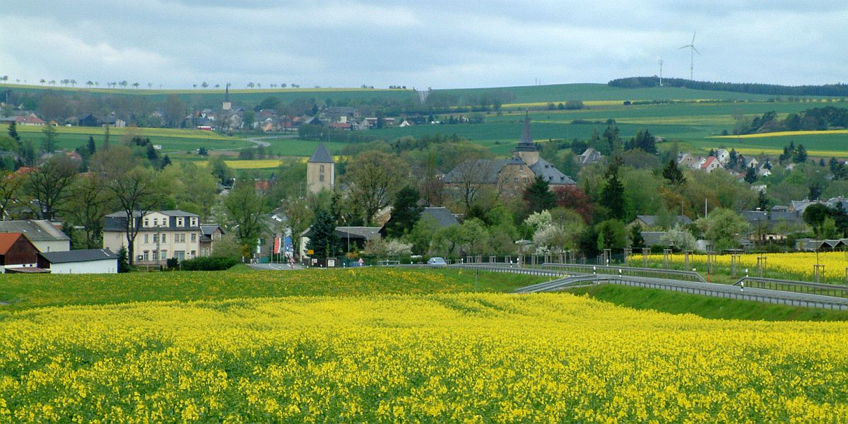 View of Mühltroff